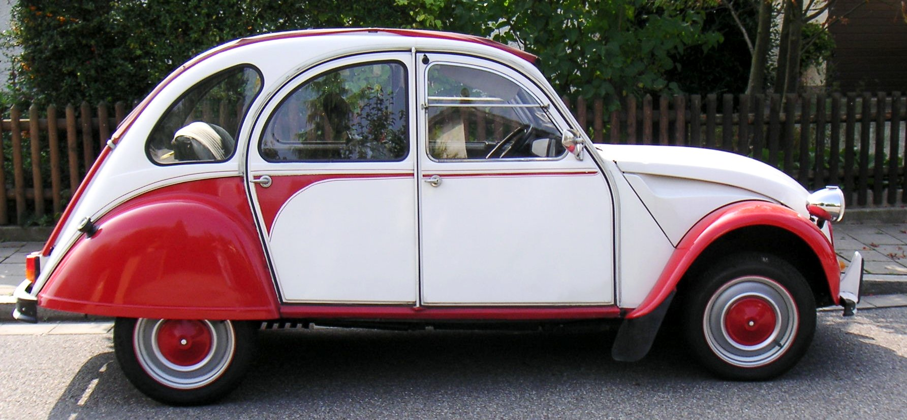 Citroën 2CV, side view.